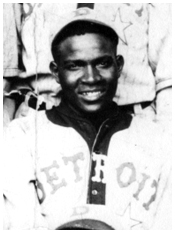 Photo of Hall of Fame Negro league baseball player Andy Cooper.